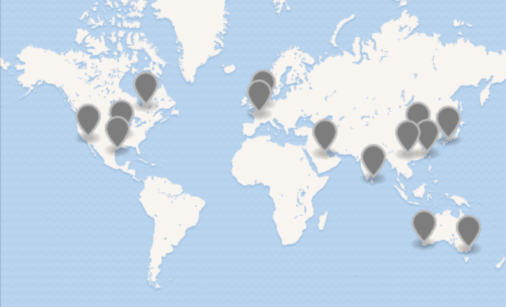 Locations of Carbon Capture and Utilization projects, according to Global CCS Institute. (2011). Accelerating the Uptake of CCS: Industrial Use of Captured Carbon Dioxide. Technology, (March).